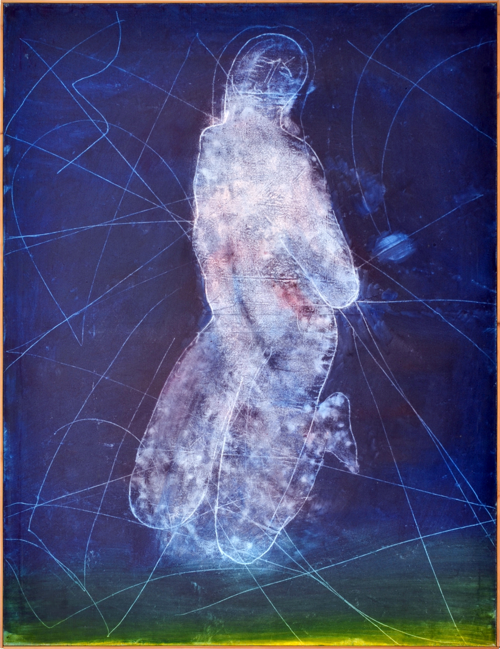 Rudolf Němec, Suffering of St. Sebastian (1978), oil, printing pigments, canvas